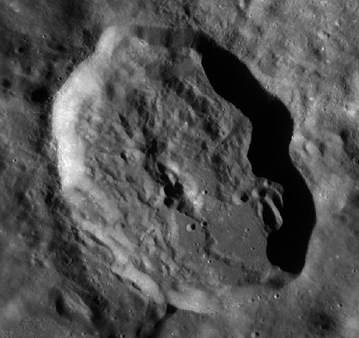 LRO image of Mariotte crater, on the far side of the moon, from the Wide Angle Camera (WAC).